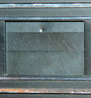 Shutter